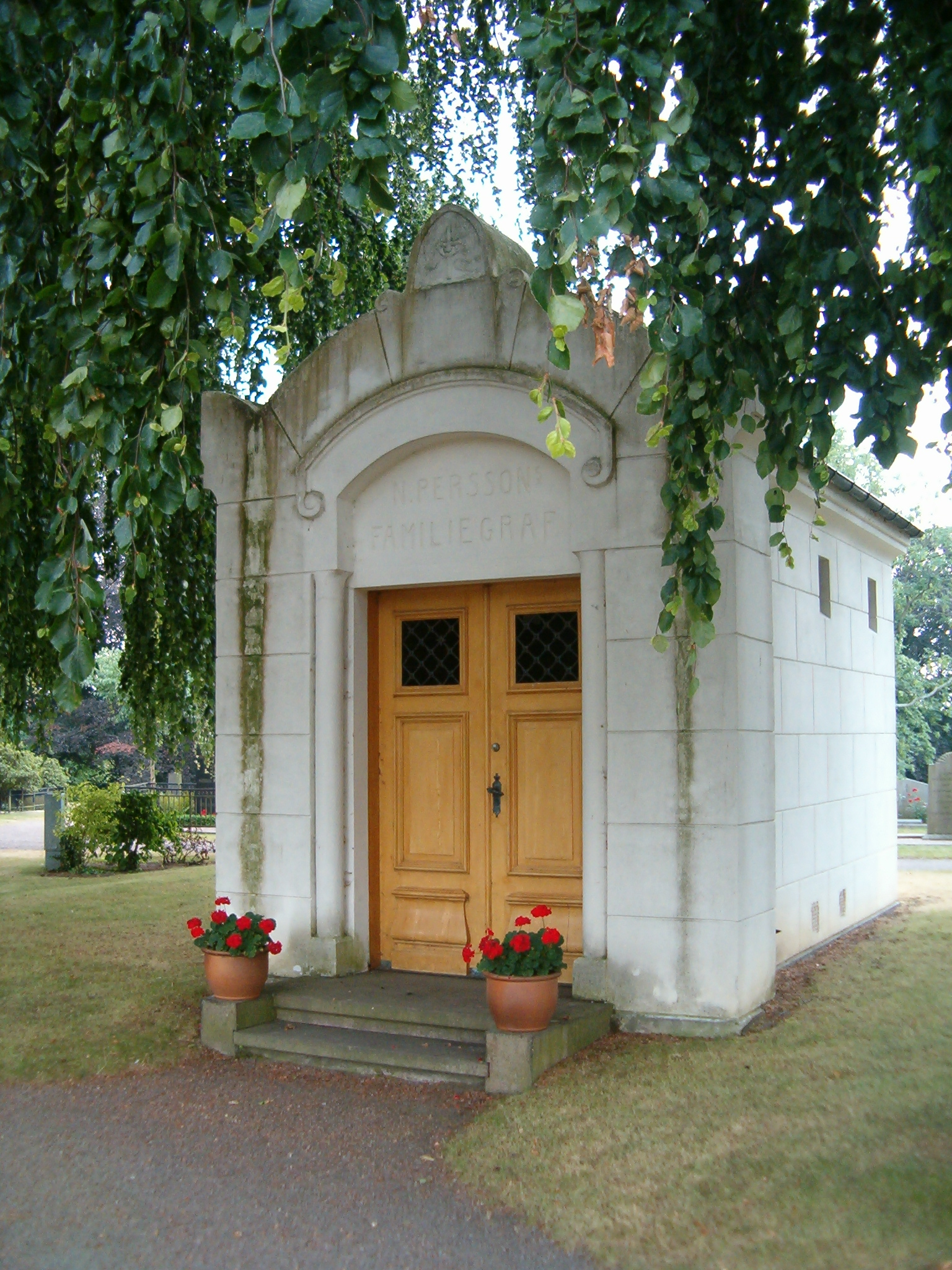 The mausoleum of consul Nils Persson at Donationskyrkogården in Helsingborg.